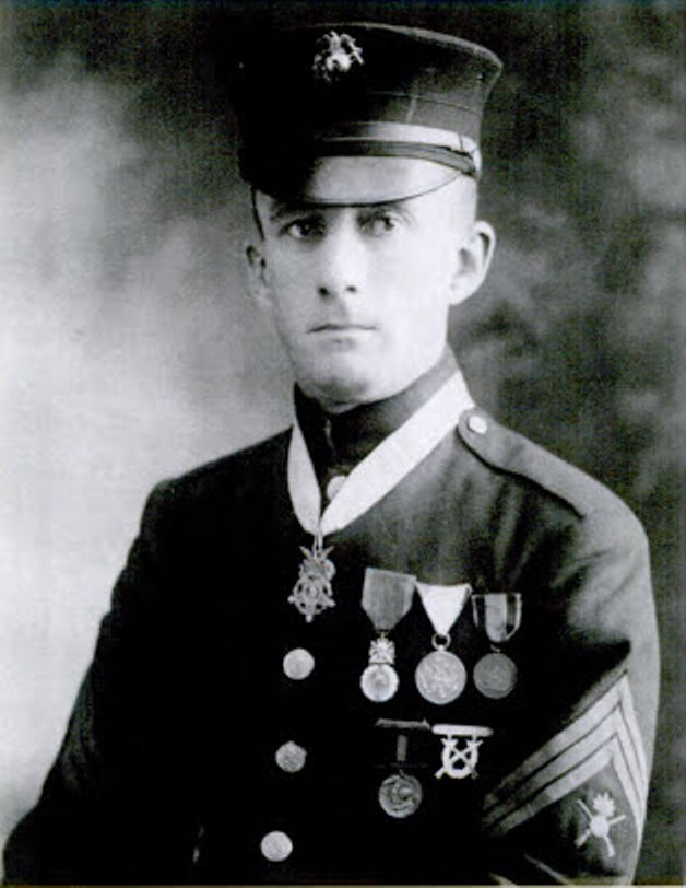 Gunnery Sergeant Ernest A. Janson. He was awarded the Army and Navy Medals of Honor in World War I. In this picture, Janson wears the Army Medal of Honor around his neck, Additionally, he wears the French Médaille militaire, the Montenegrin Medal for Military Bravery and the Nicaraguan Campaign Medal in the top row on his left breast. The Marine Corps Good Conduct Medal and Expert Rifleman badge are immediately below.